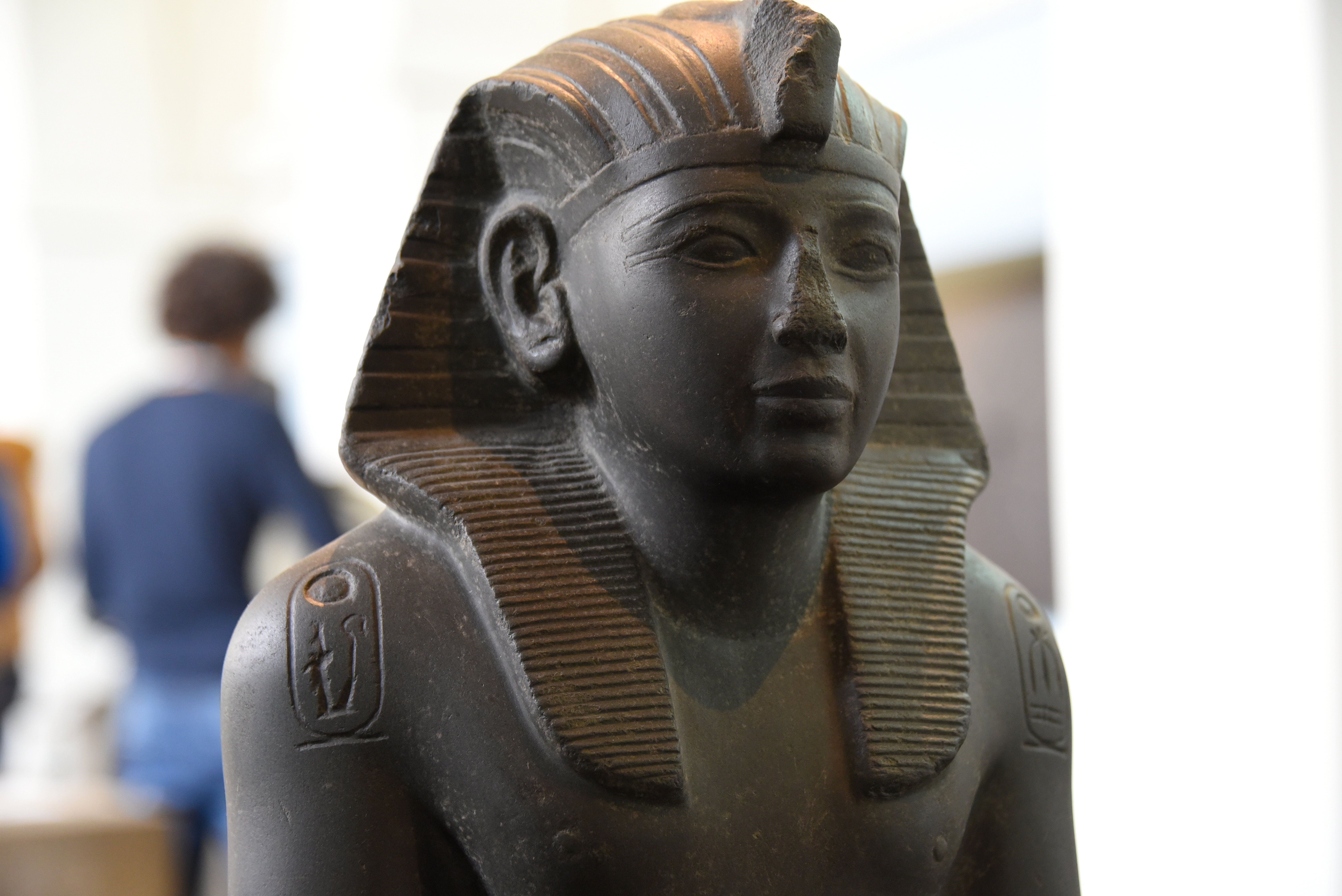 This is the upper part of a greywacke statue of Ramesses IV. The birth and throne names appear on his shoulder. 20th Dynasty, reign of Ramesses IV, circa 1153-1147 BC. Probably from Thebes, perhaps from Karnak, modern-day Egypt. It is currently housed in the British Museum in London.